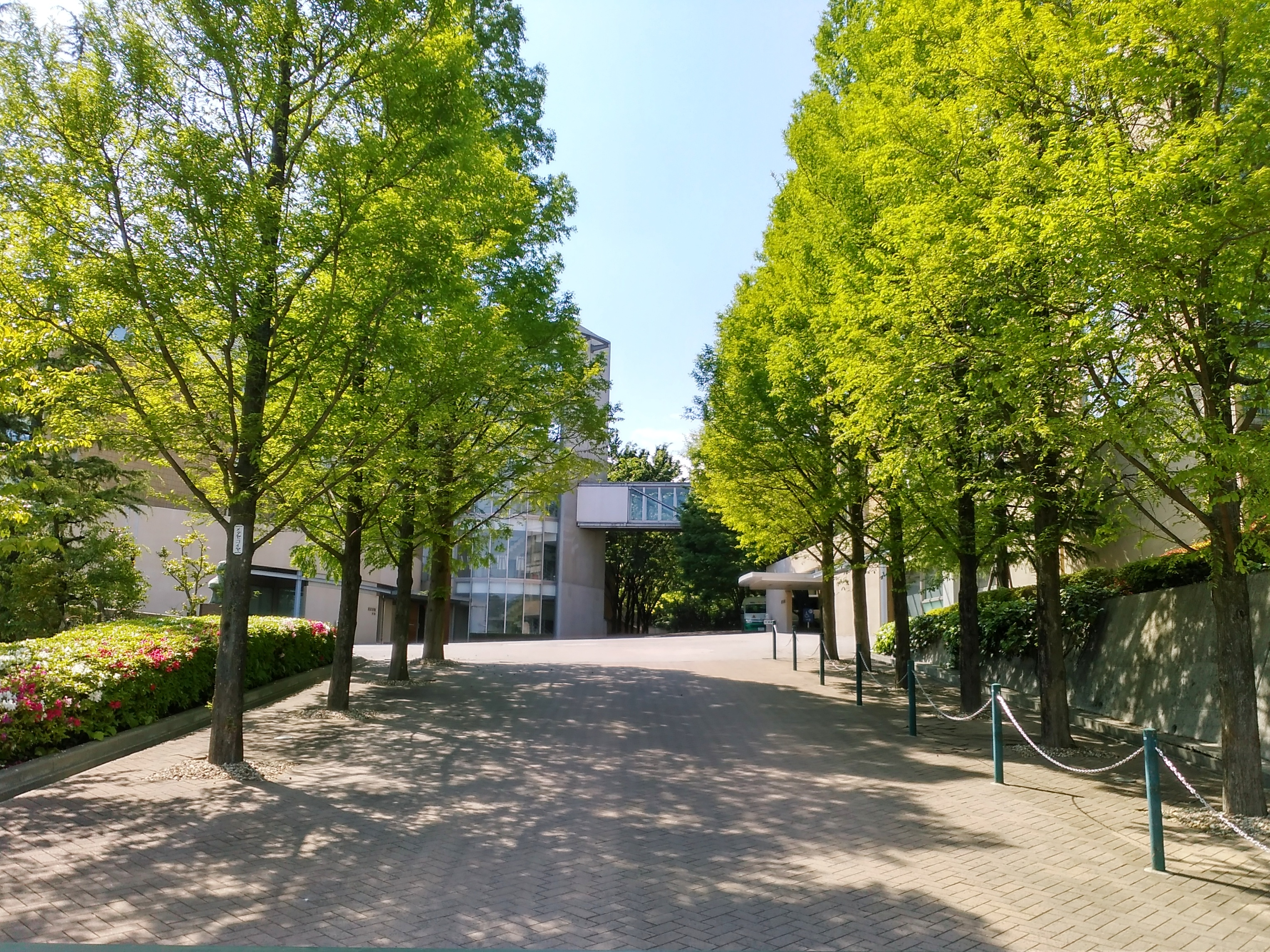 Kobe Tokiwa University in Nagata-ku, Kobe, Hyogo, Japan.